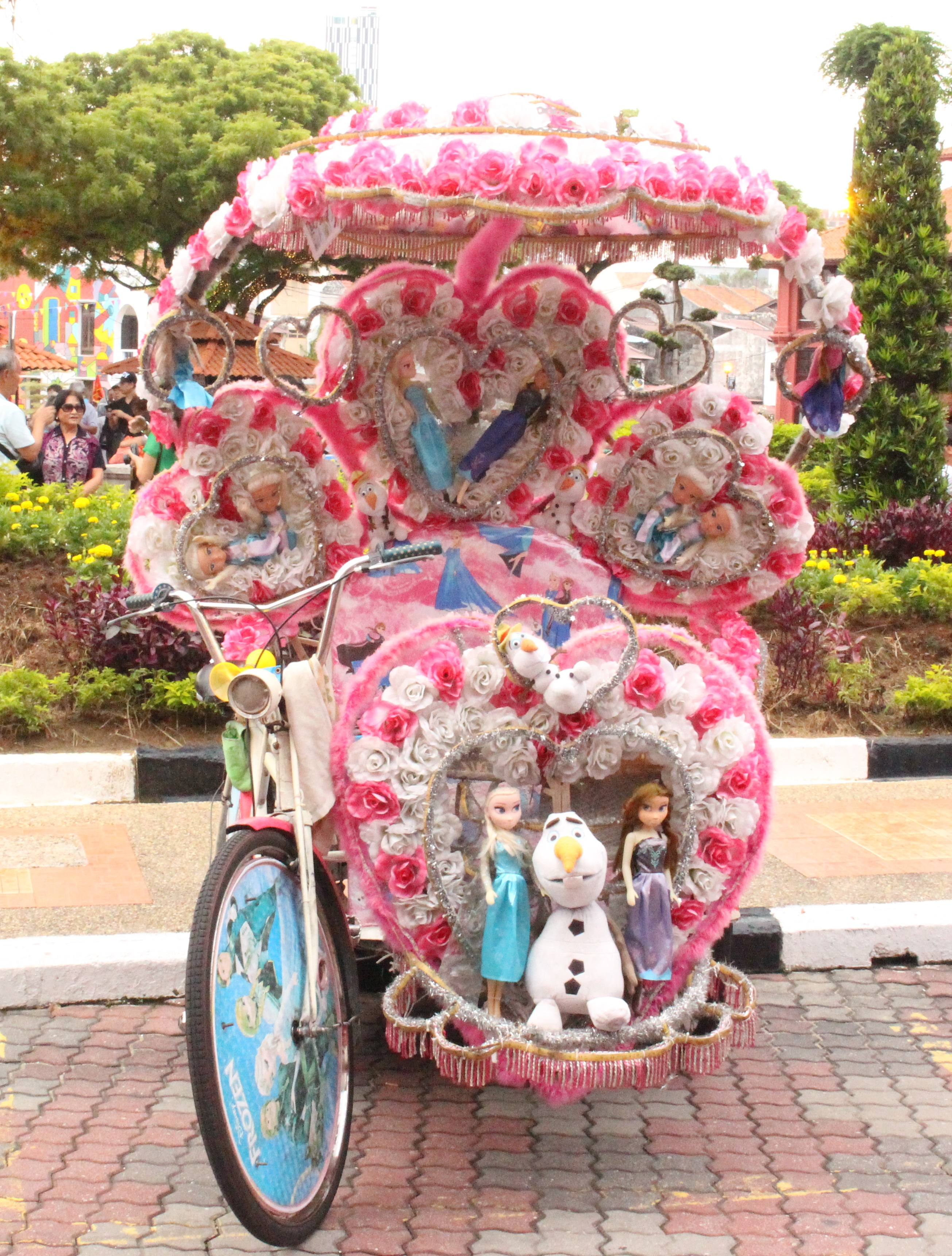 Beautiful Rickshaw